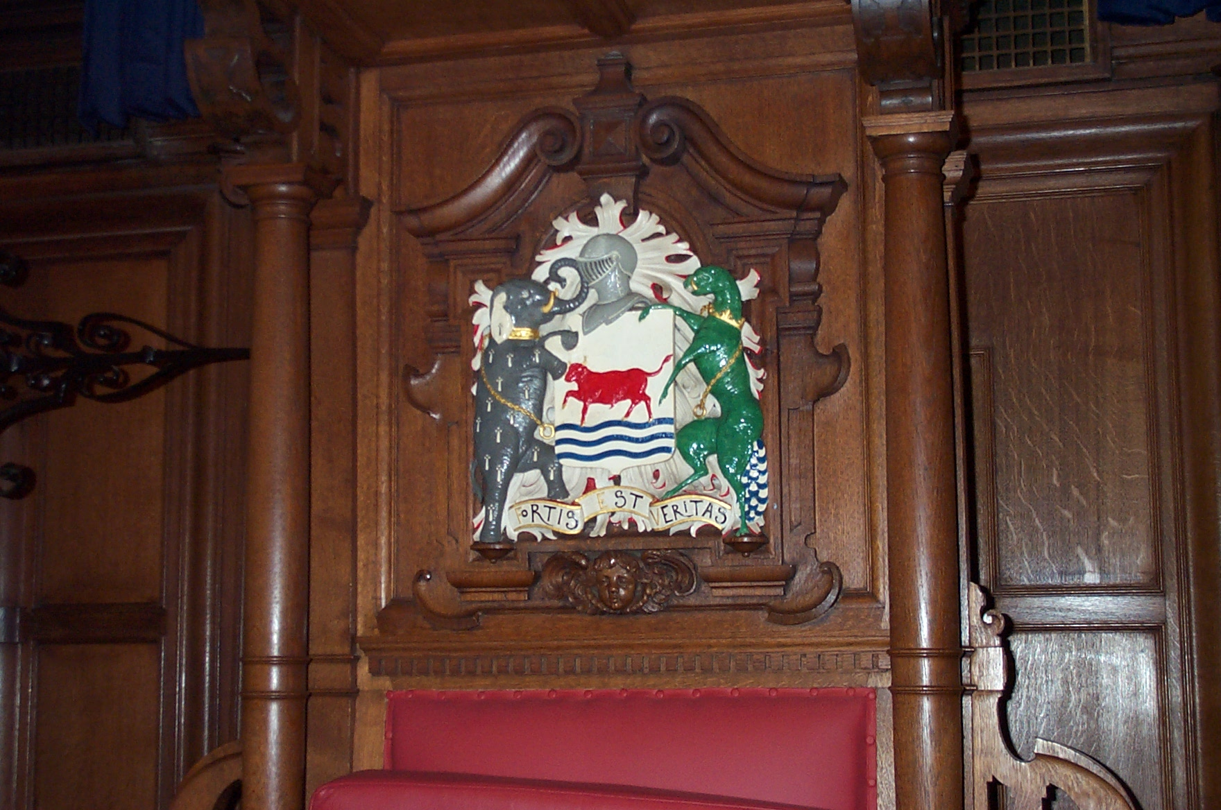 the coat-of-arms of the City of Oxford, seen in the (City) Council chambers in the Town Hall, 2005-03-03, Copyright Kaihsu Tai